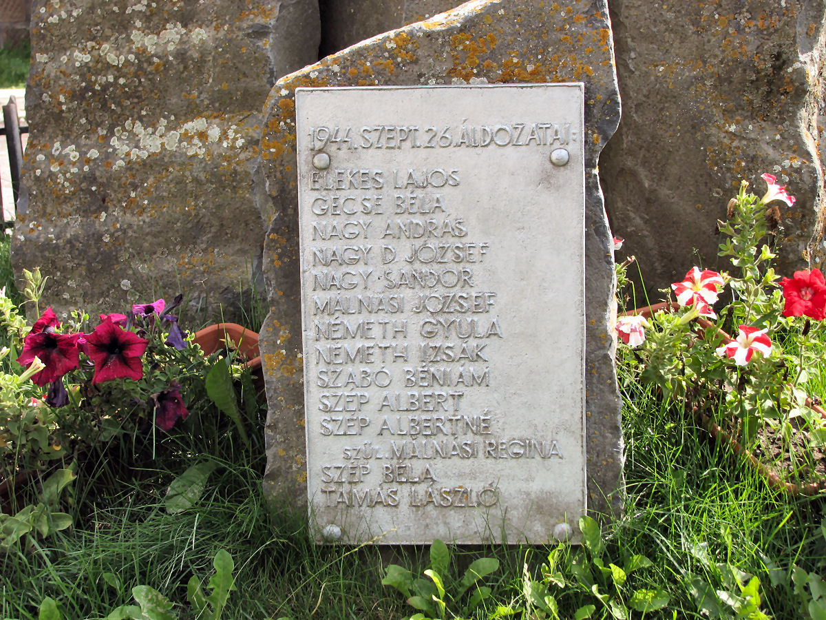 Victims of the massacre on 1944. September 26; Aita Seacă (hu. Szárazajta)